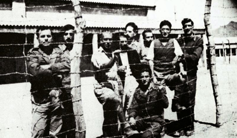 Greek soldiers, prisoners in British concentration camp in El Daba, Egypt after anti-monarchist revolt of Greek Army in Middle East, 1944